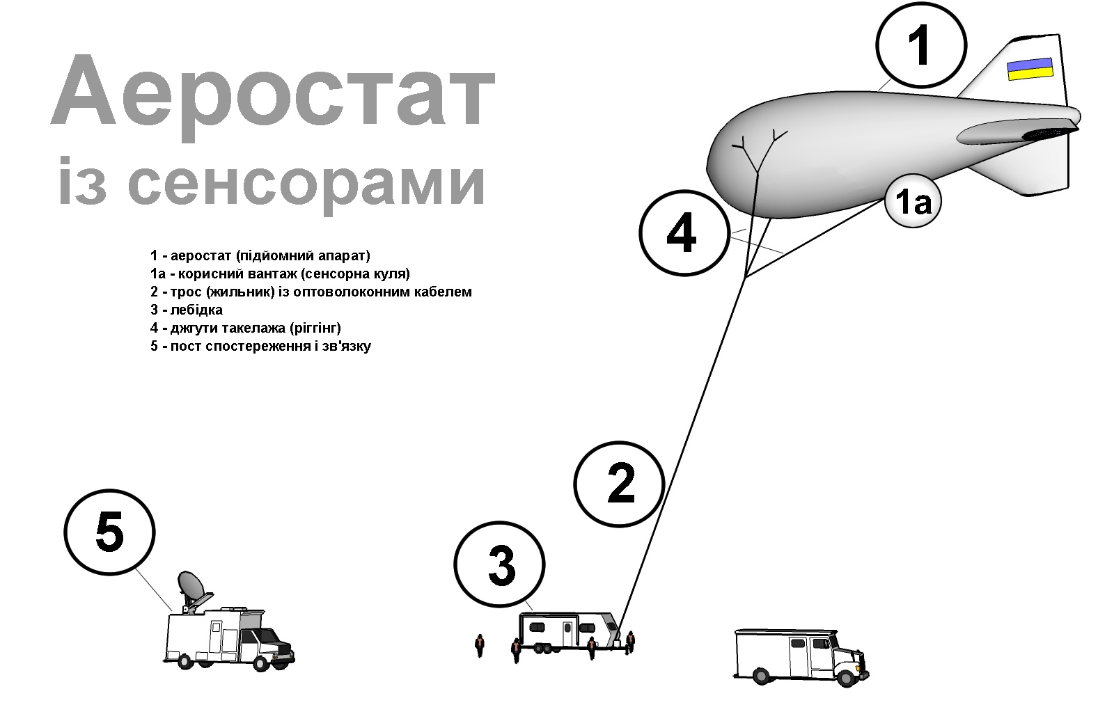 This is a futuristic drawing of the Ukrainian National Guard surveillance Aerostat, hopefully operational year 2020. The image represents a 2D graphic output from the 3D scene modeled in Google SketchUp. The Ukrainian text on the image reads as follows: Aerostat with sensors 1 – tethered balloon 1a – payload (sensors) 2 – tether with the fiber optic data cable 3 – winch 4 – rigging 5 – surveillance and communication ground station